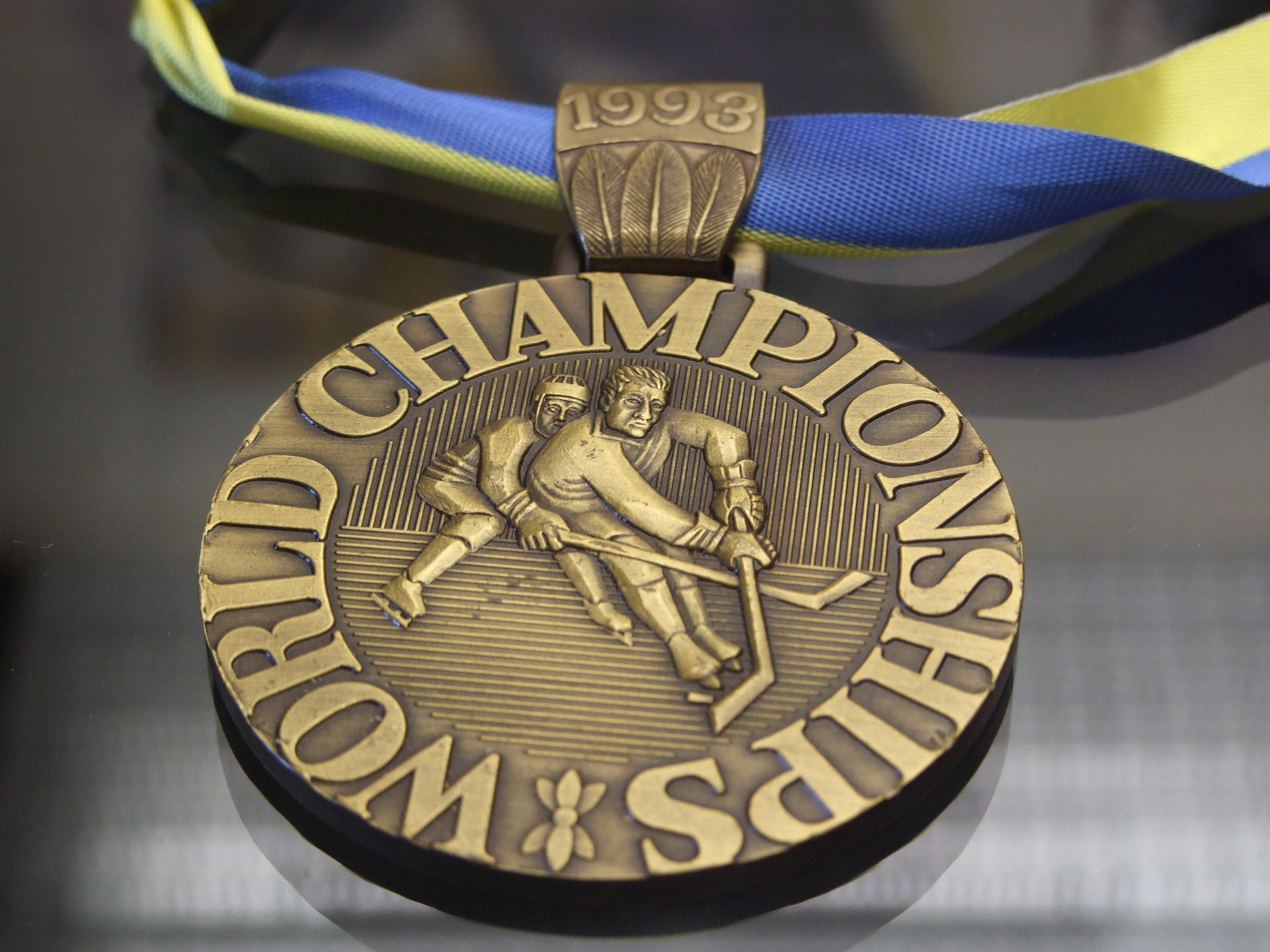 One Century Of Czech Ice Hockey Exhibition, National Museum in Prague: [1]